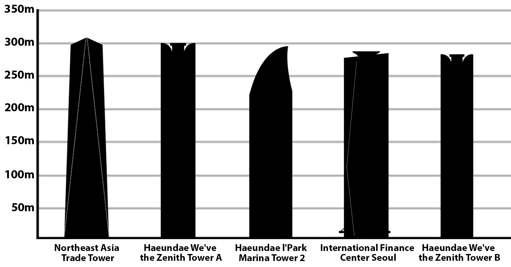 Tallest buildings in South Korea; Used data from .